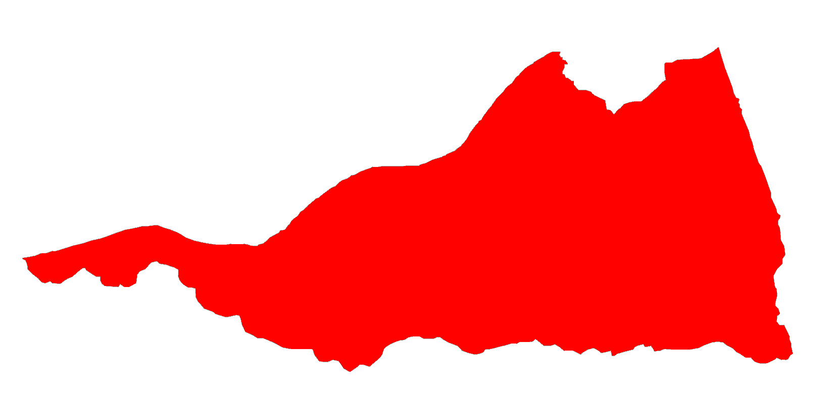 neighborhood/district of Santa Maria, Rio Grande do Sul